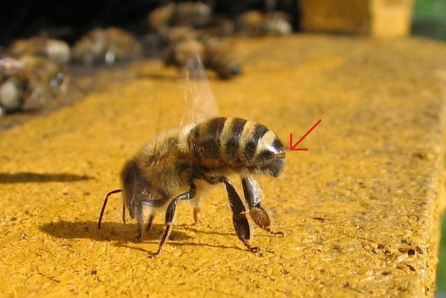 A honeybee on an apiary, spreading feromones to 'call back' her collegues, showing her nassanoff-gland. Location: Tübingen-Hagelloch.